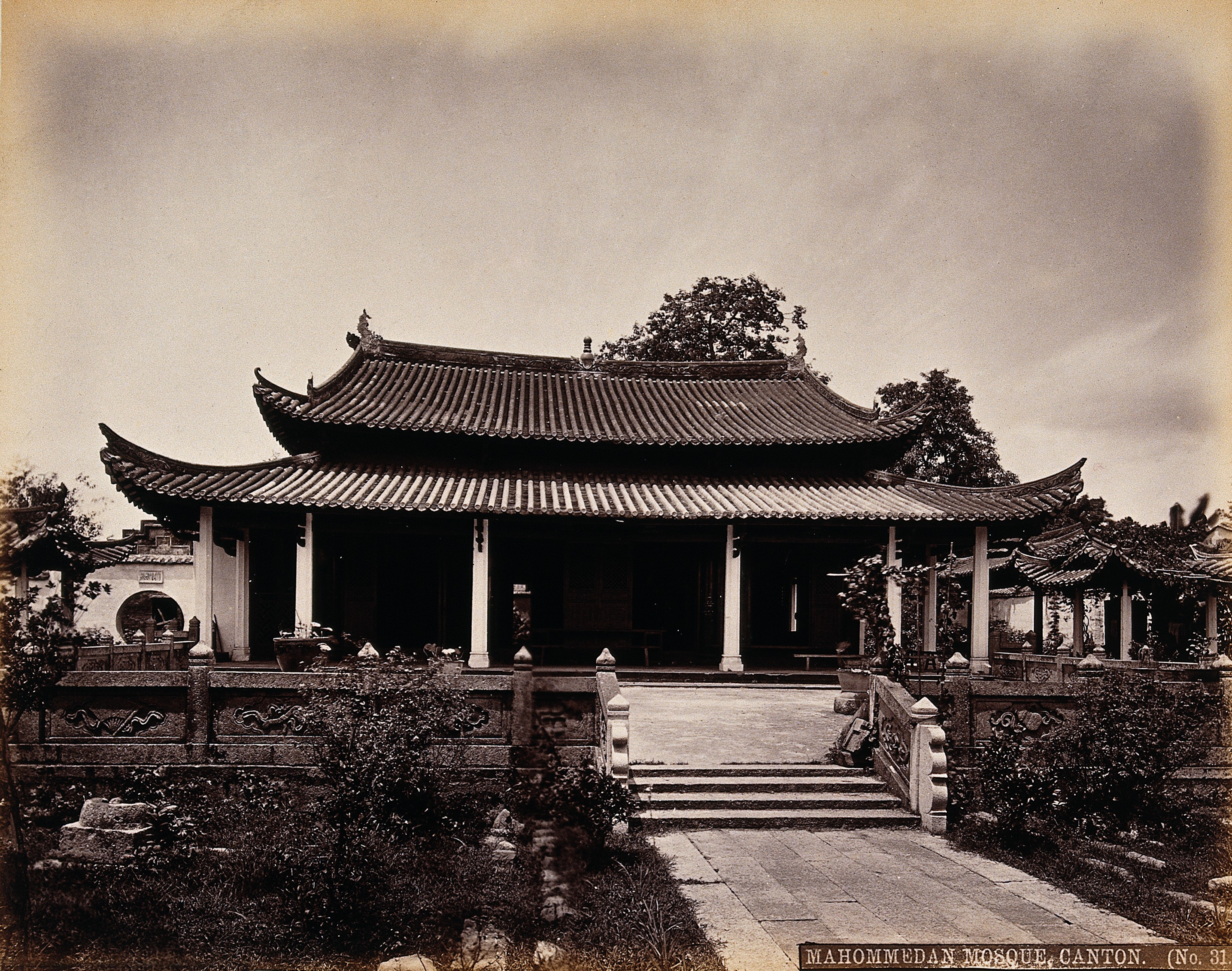 China Iconographic Collections Keywords: William Pryor. Floyd